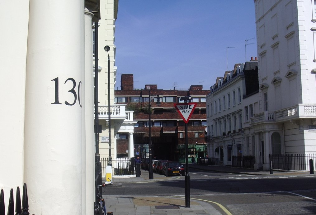 A street in Pimlico, London, which characteristically mixes grand Victorian town-houses with council housing User:rayray took this picture on 16/03/2005.